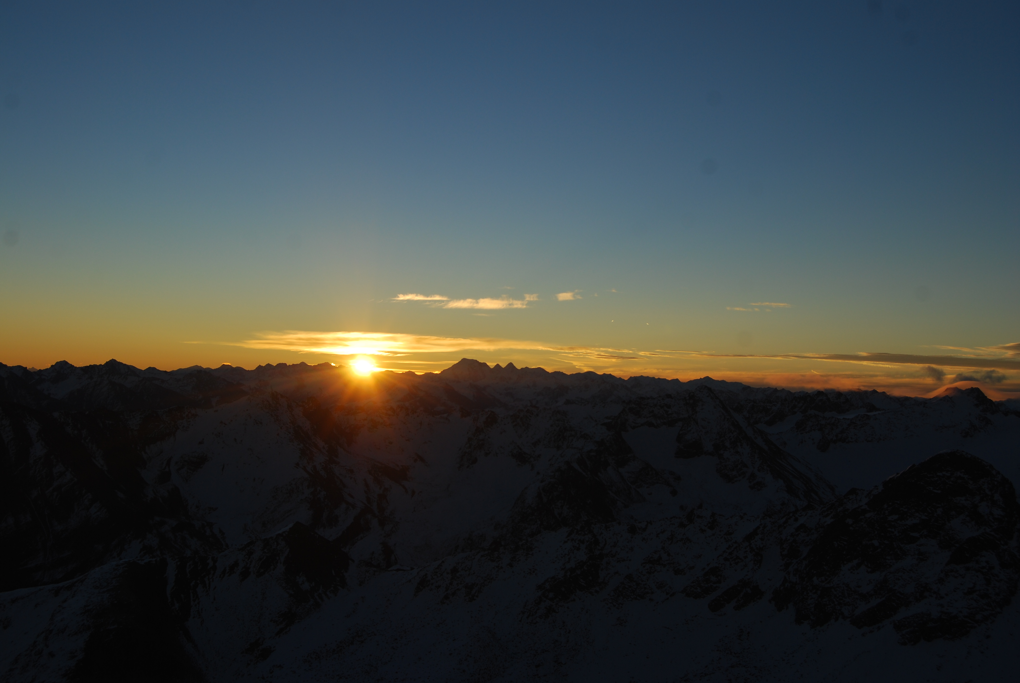 Sunset on Schwarzhorn near Flüelapass (Davos/Zernez, Grison, Switzerland)